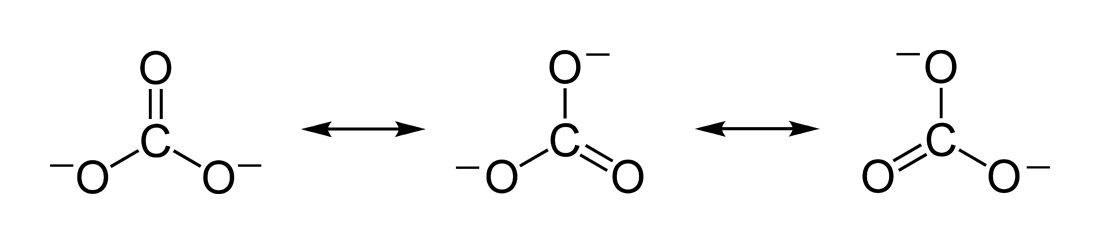 Resonance structures of the carbonate ion, CO32−. No one of these three structures accurately represents the structure of carbonate, since in reality all three C-O bonds are the same length and the charge on all three oxygens is the same.